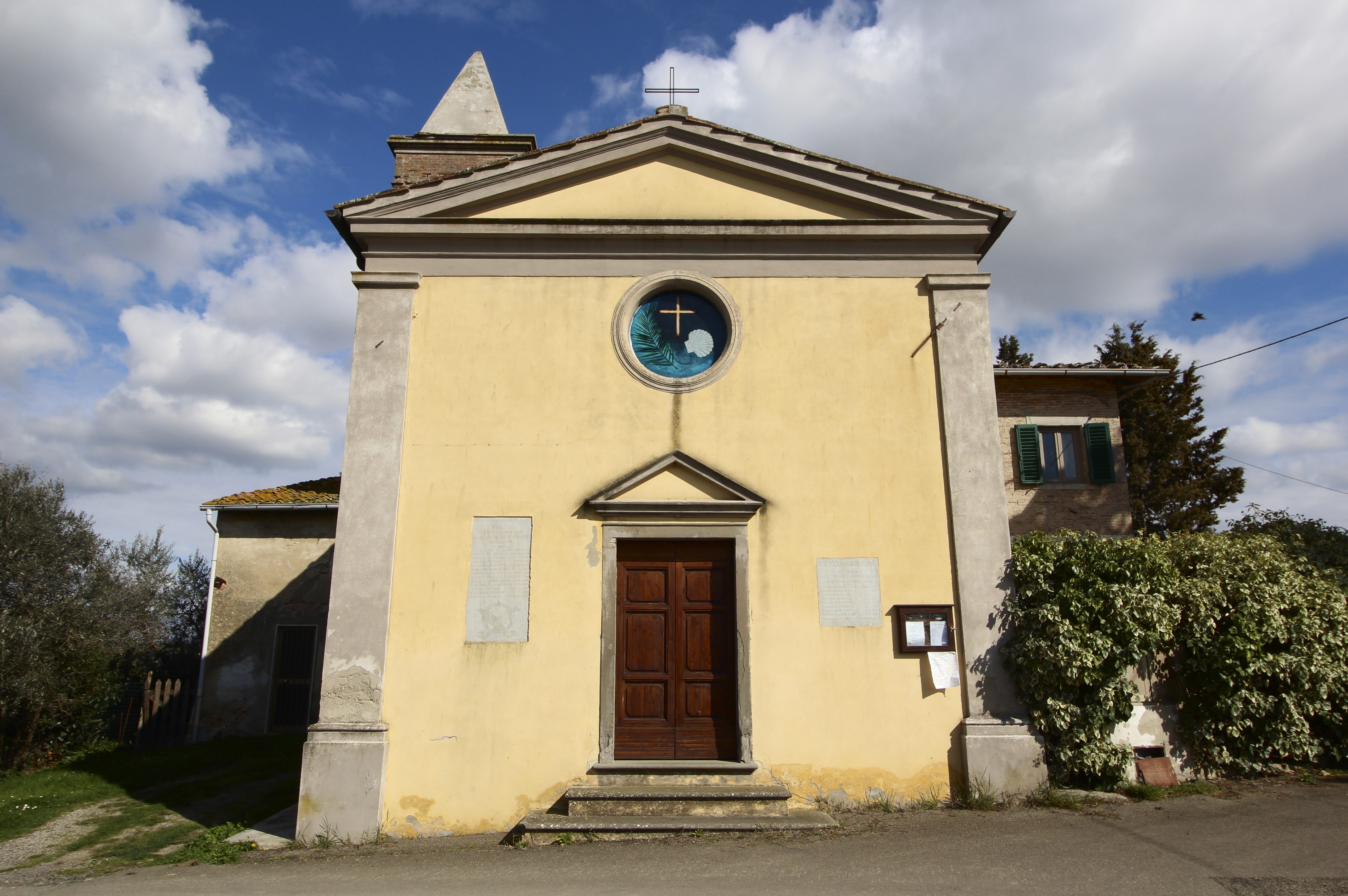 church Santa Lucia, Cusignano, hamlet of San Miniato, Province of Pisa, Tuscany, Italy